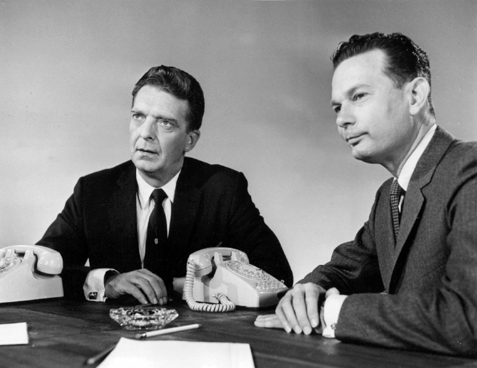 Photo of Chet Huntley (left) and David Brinkley from the network news program the Huntley-Brinkley Report.